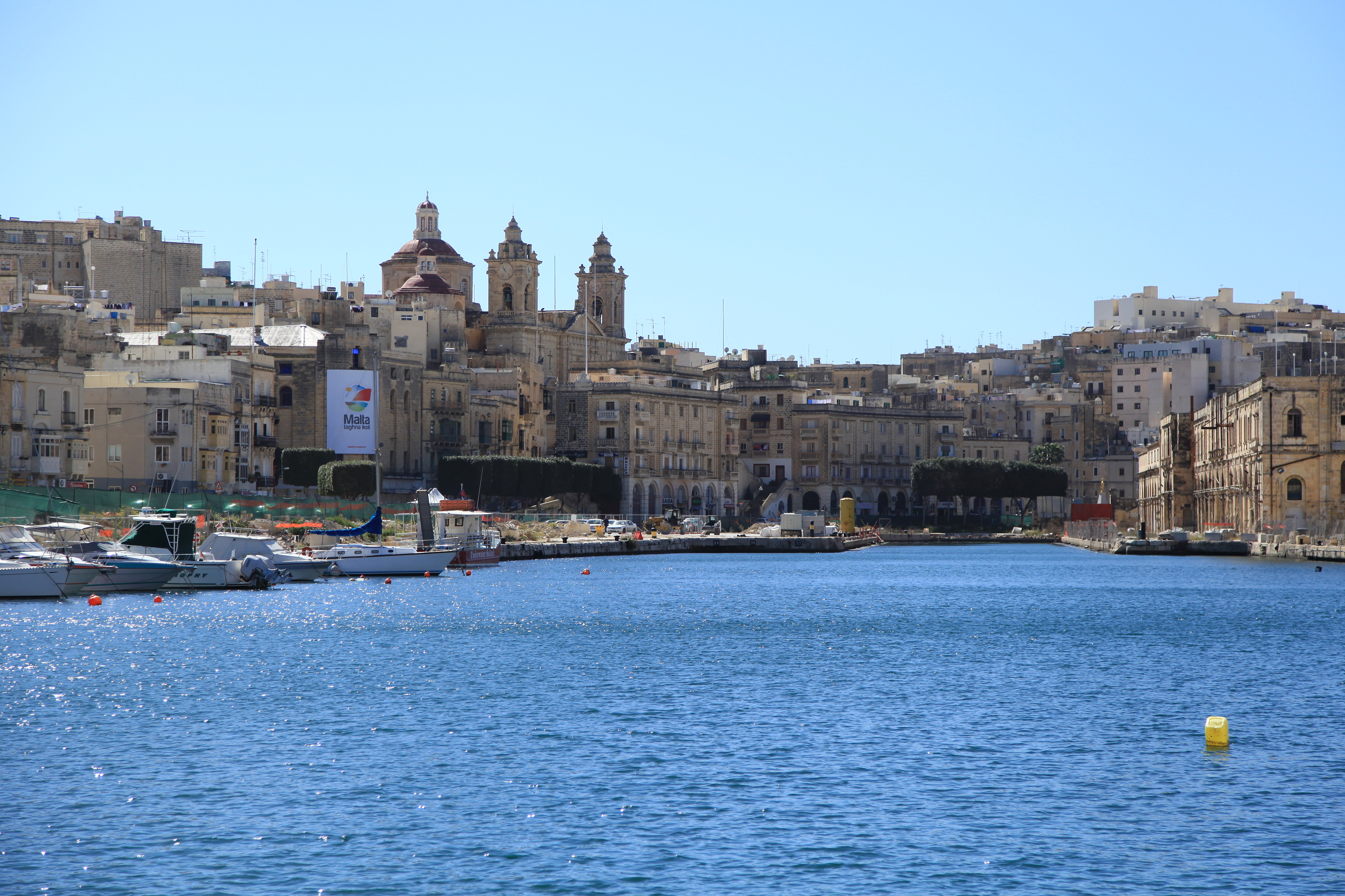 View from a Malta sightseeing two harbours cruise boat to Triq Santa Tereża and the Dockyard creek in Cospicua, Malta